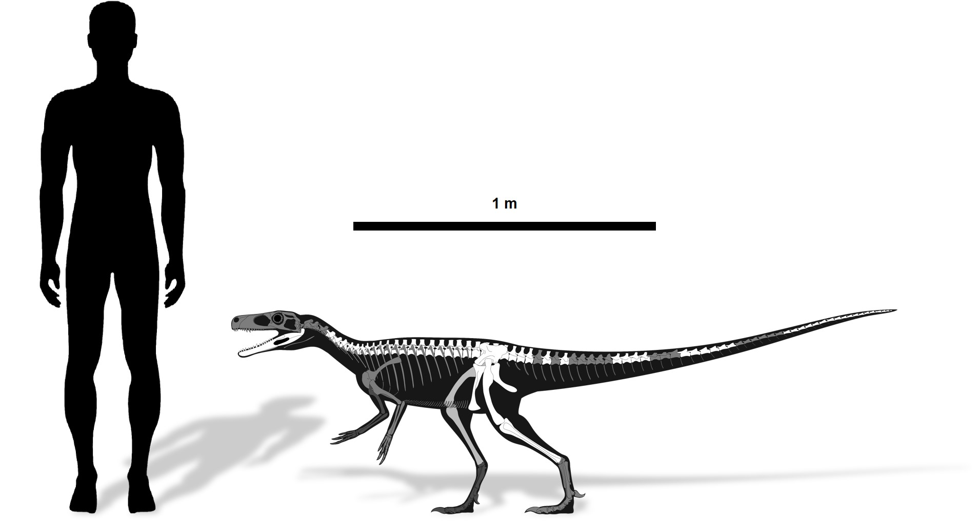 Size comparison between Staurikosaurus pricei (based on the holotype) and a human. Staurikosaurus pricei reconstructed with 0.8 m high and 2.5 m long. Human with 1.8 m high.